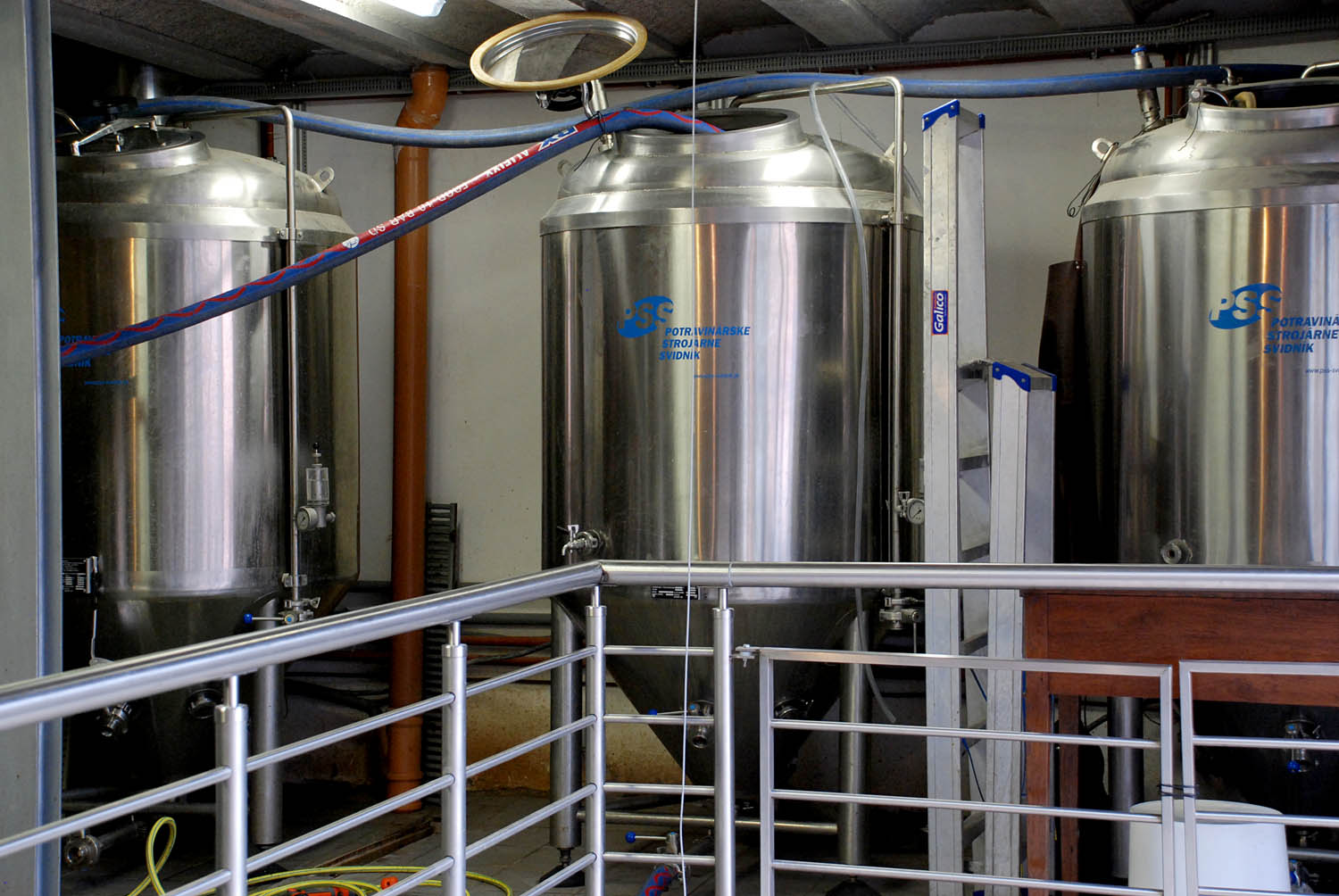 Brewery La Frasnoise